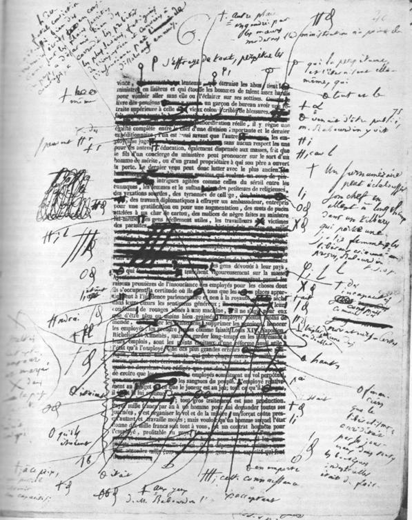 Correction page of Honoré de Balzac